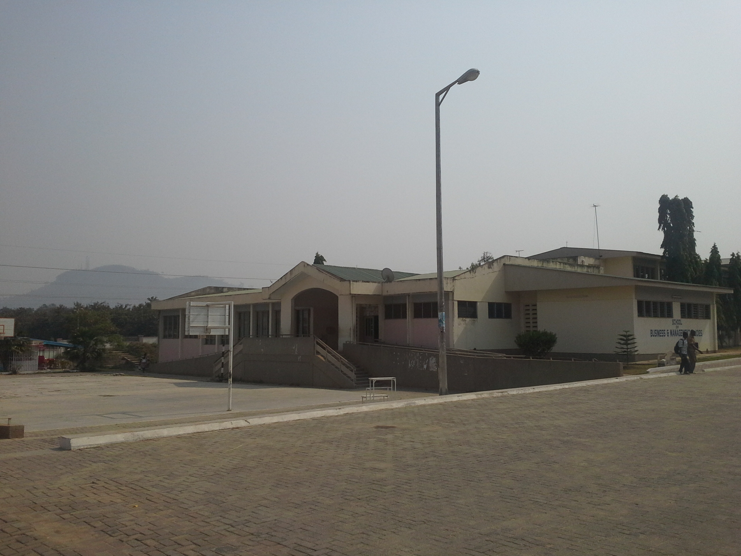 business and management block located along side the basketball court